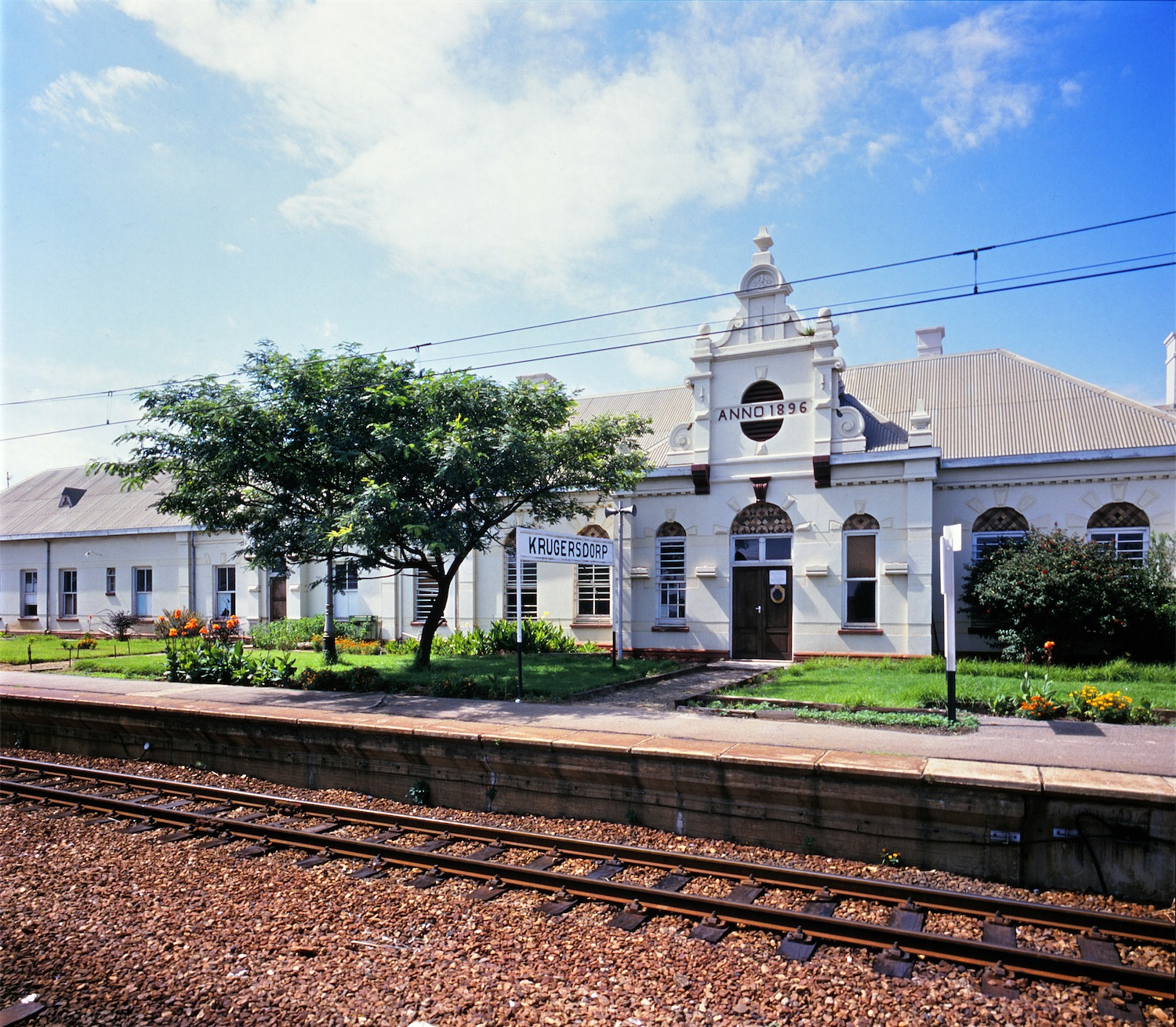 This media shows a South African Protected Site with SAHRA file reference 9/2/233/0010.